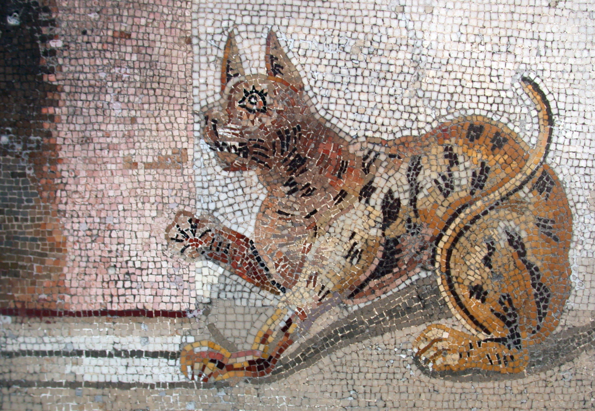 Cat and parrots mosaic (detail), found in Category:Santa Maria Capua Vetere, now in the National Archaeological Museum of Naples (inv. nr. 9992).